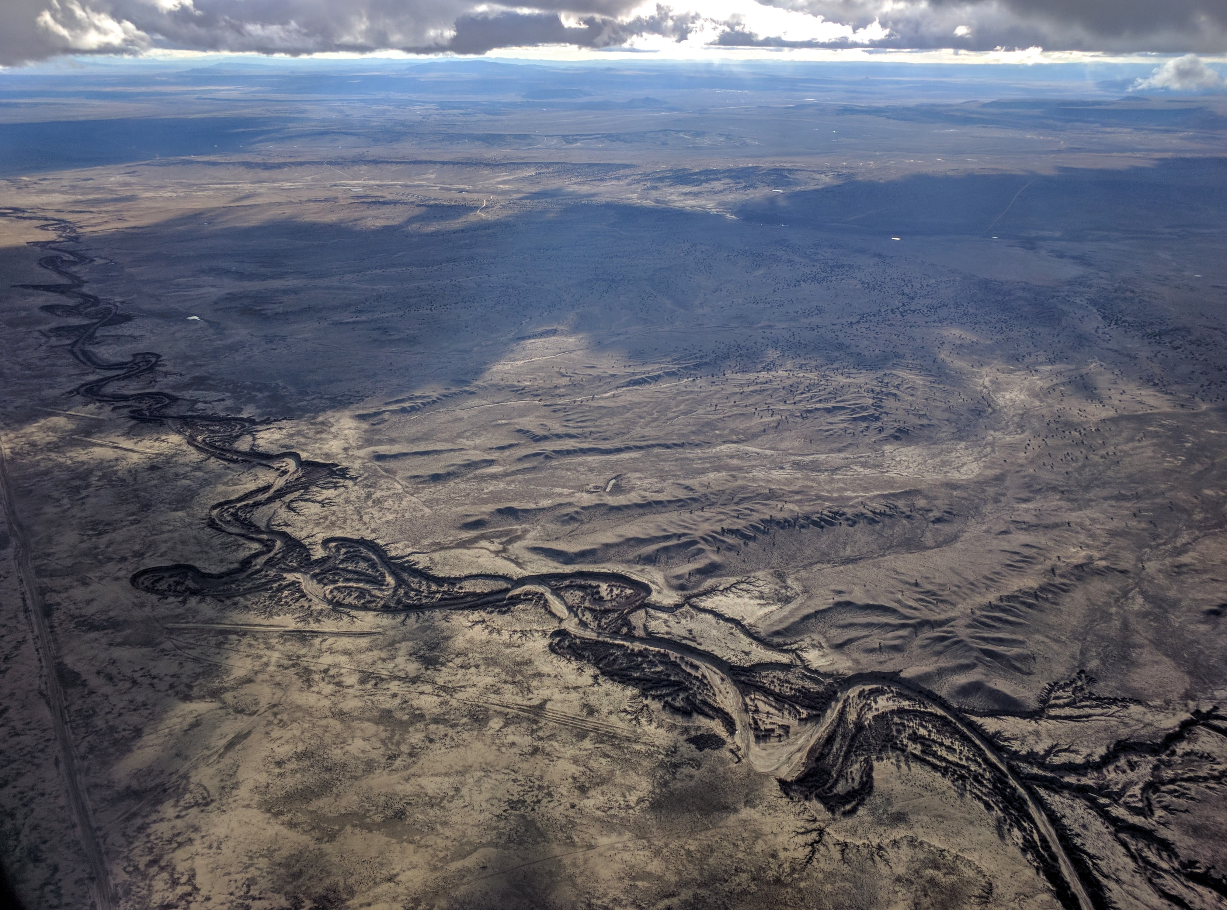 The Rio Puerco, an ephemeral tributary of the Rio Grande, west of Albuquerque, crossing the eastern edge of the Tohajiilee Indian Reservation; December 2016.